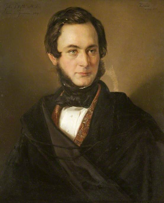 Trautschold, Wilhelm; Professor John Buddle Blyth (b.1814), Professor of Chemistry (1847-1848); The Royal Agricultural University Collection